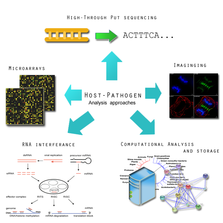 This is a summary of the host-pathogen analysis approaches which were outlined in the article: "Pathogenomics: An Updated European Research Agenda". The reference for that article is here: Demuth, A., Aharonowitz, Y., Bachmann, T.T., Blum-Oehler, G., Buchrieser, C., Covacci, A., Dbrindt, G., Emody, L., et al. (2008). "Pathogenomics: An updated European Research Agenda". Infection Genetic and Evolution 8: 386-393. PMID 18321793.